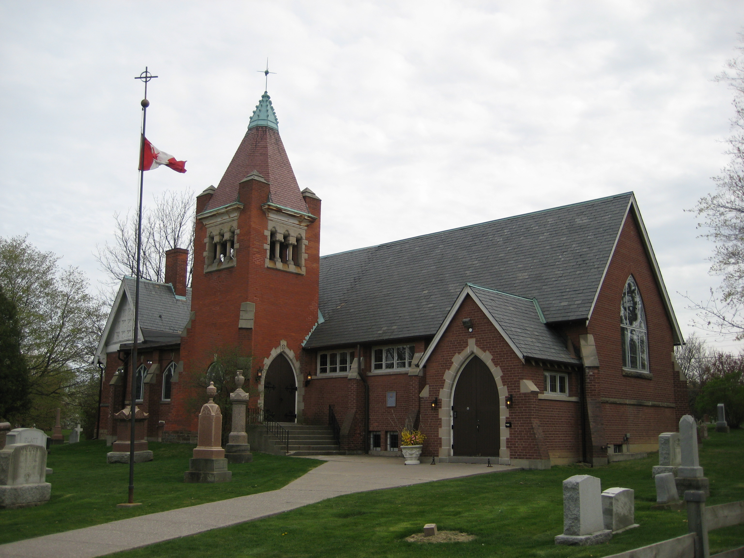 St. Philip Anglican Church, Etobicoke